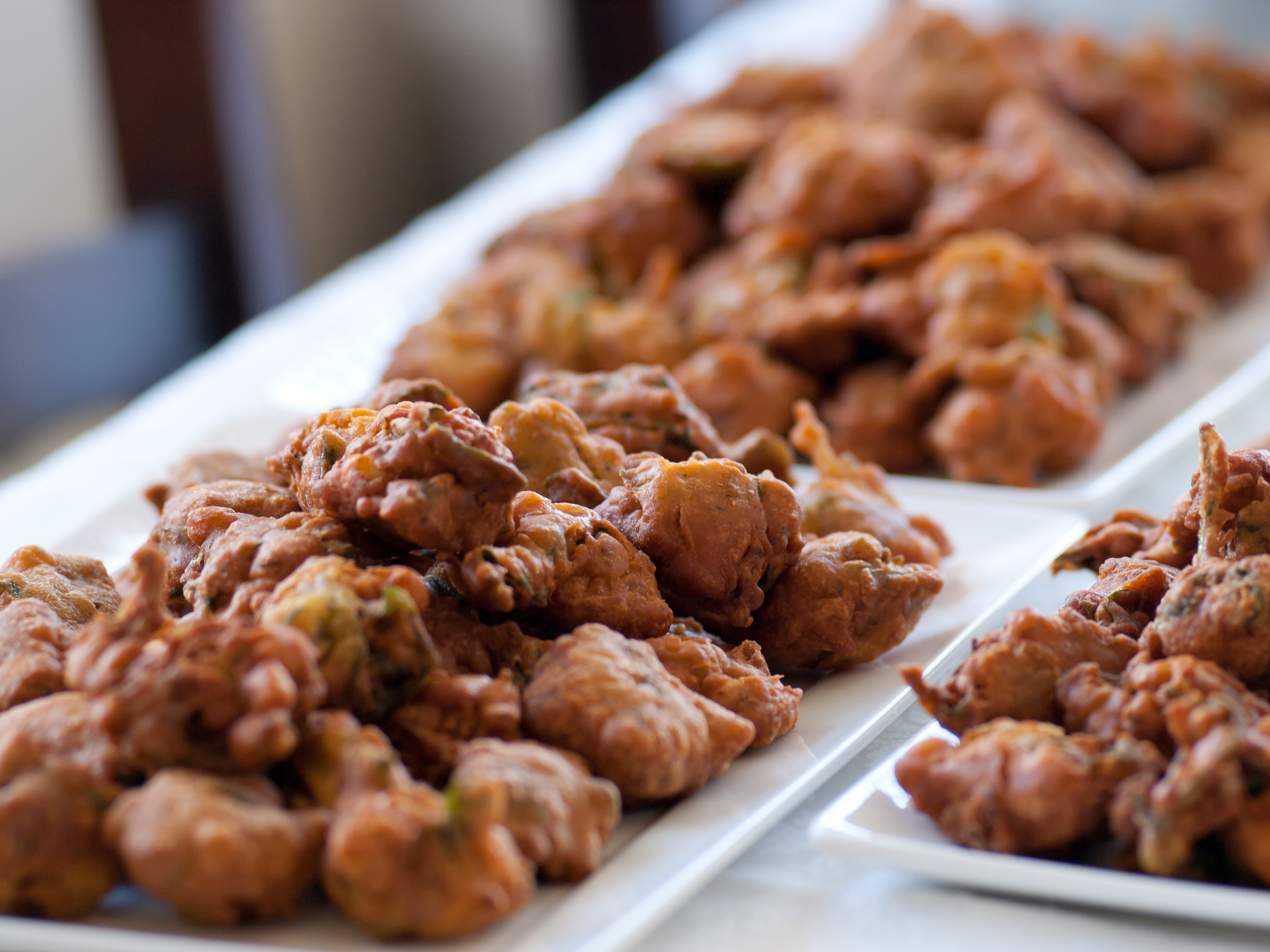 Bhaji, a type of pakora commonly called chilli bites ready for serving.